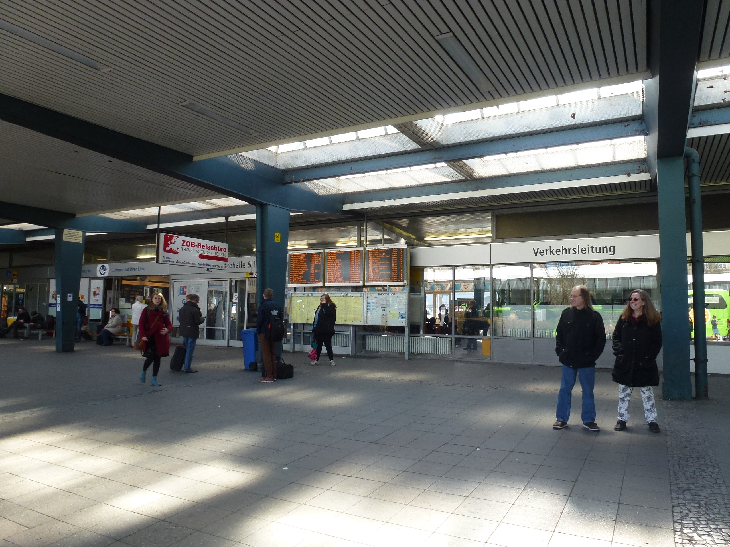 Berlin Westend Busbahnhof